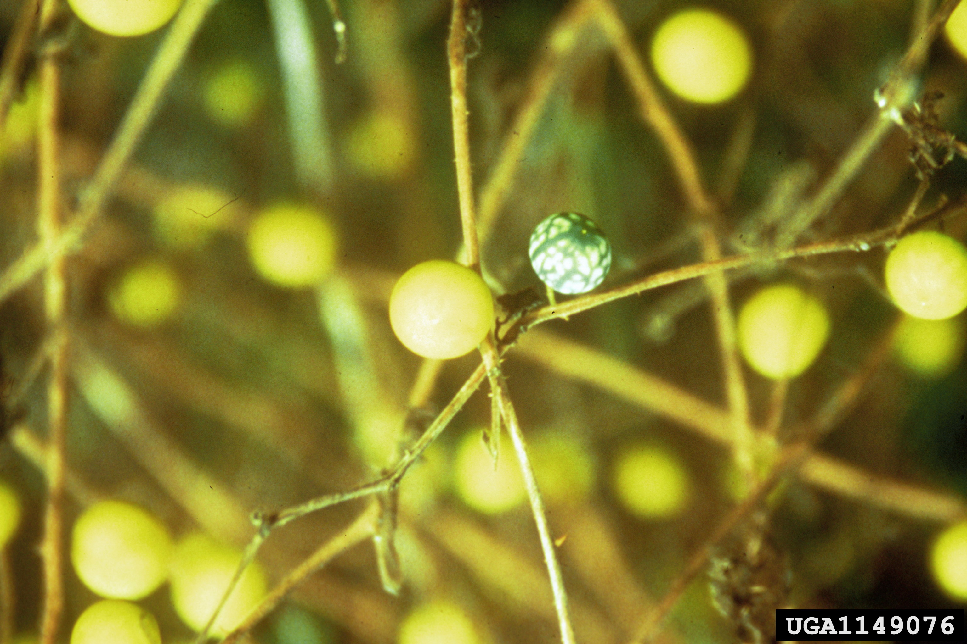 Fruits of Solanum viarum